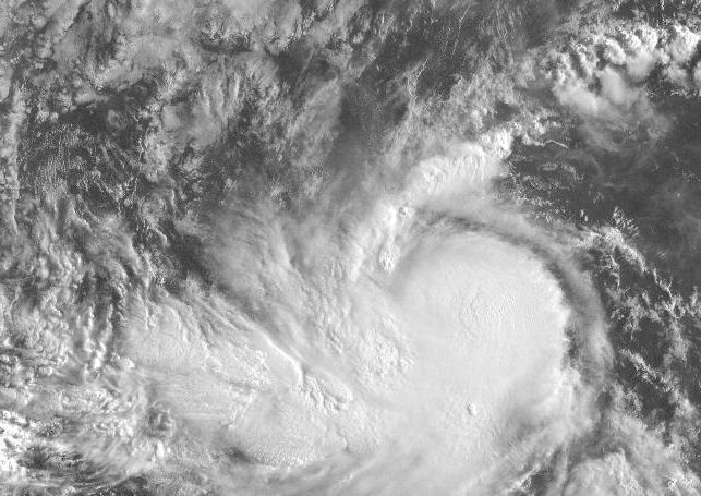 Tropical Storm Hernan photographed in visible light by GOES East Pacific Floater 1 at 1500Z on 7 Aug 2008